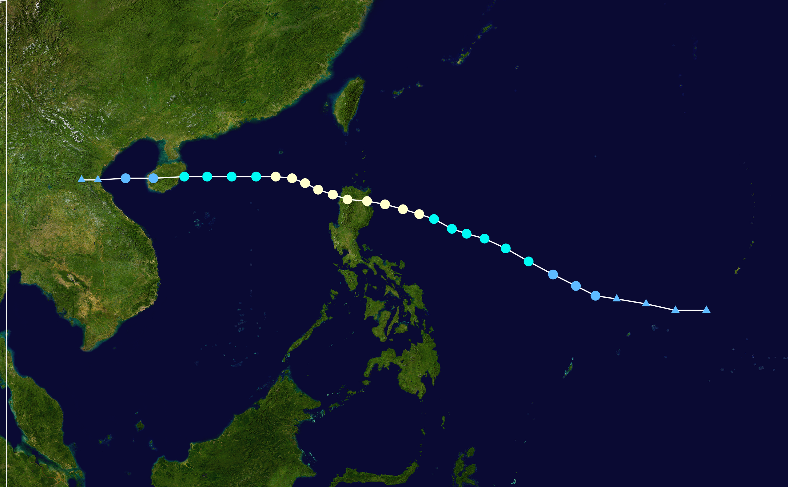 Typhoon Bess (1974) track. Uses the color scheme from the Saffir-Simpson Hurricane Scale.